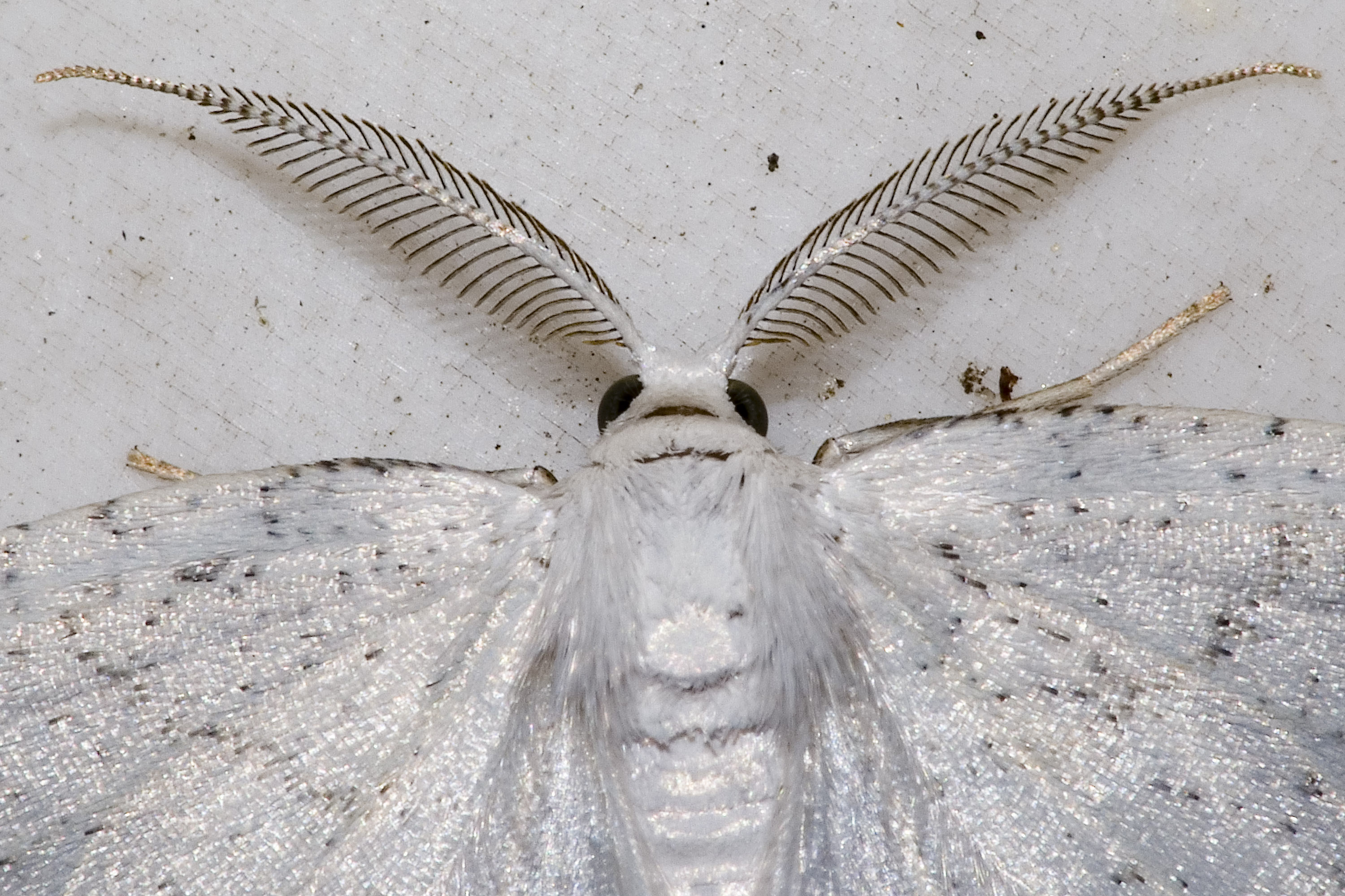 Common White Wave, Cabera pusaria